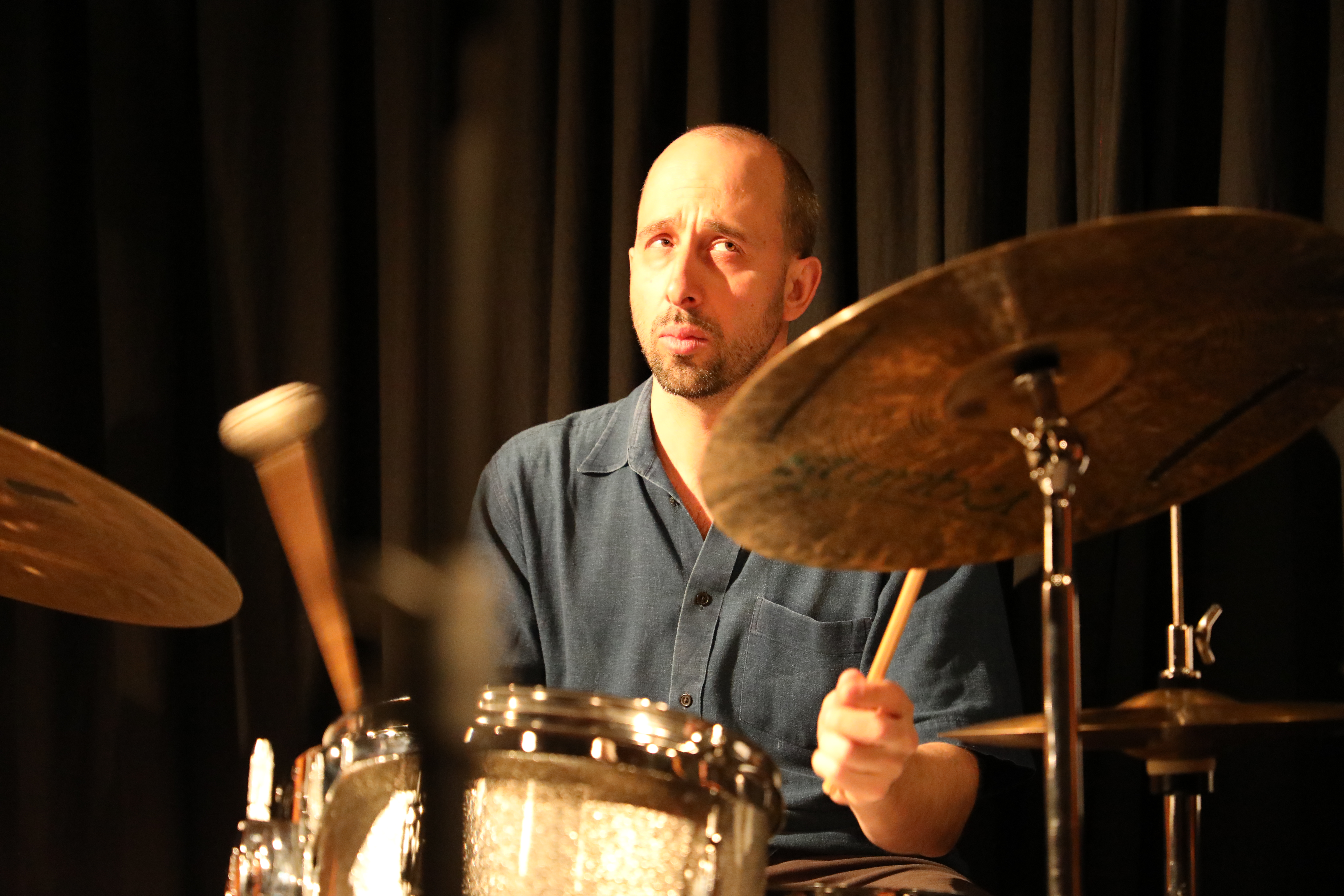 The Fictive Five is the jazz ensemble of composer and saxophone player Larry Ochs. Members are Nate Wooley (tr), Harris Eisenstadt (dr), Pascal Niggenkemper (db) & Ken Filiano (db).